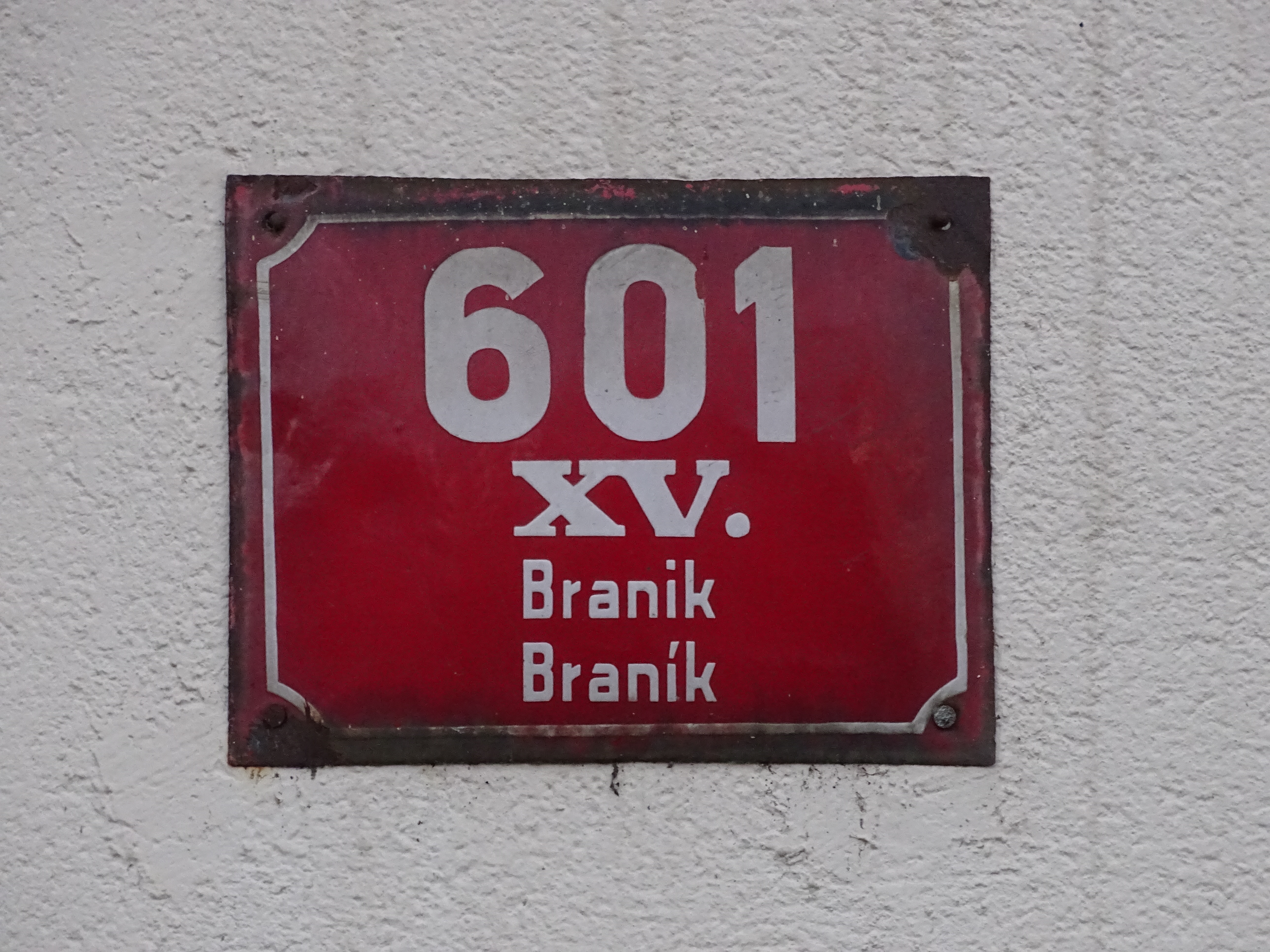 Prague-Braník, Czechia, Zelinářská 601/22, a house number.